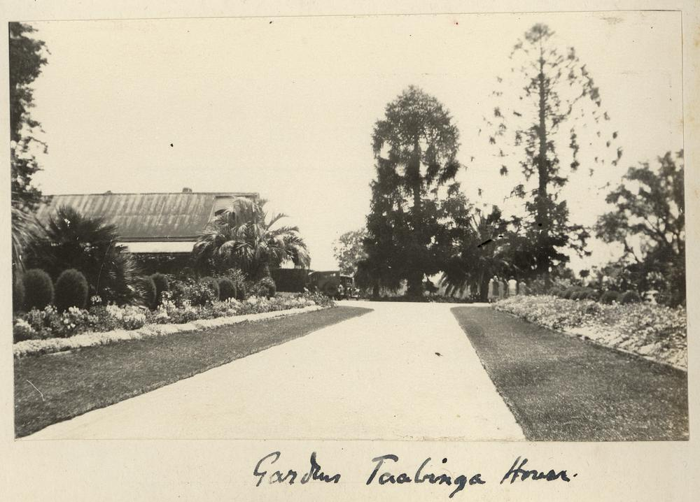 Queensland Governor and party on a tour of the gardens at Taabinga House, 1927